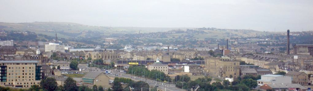 Image of Bradford City Centre